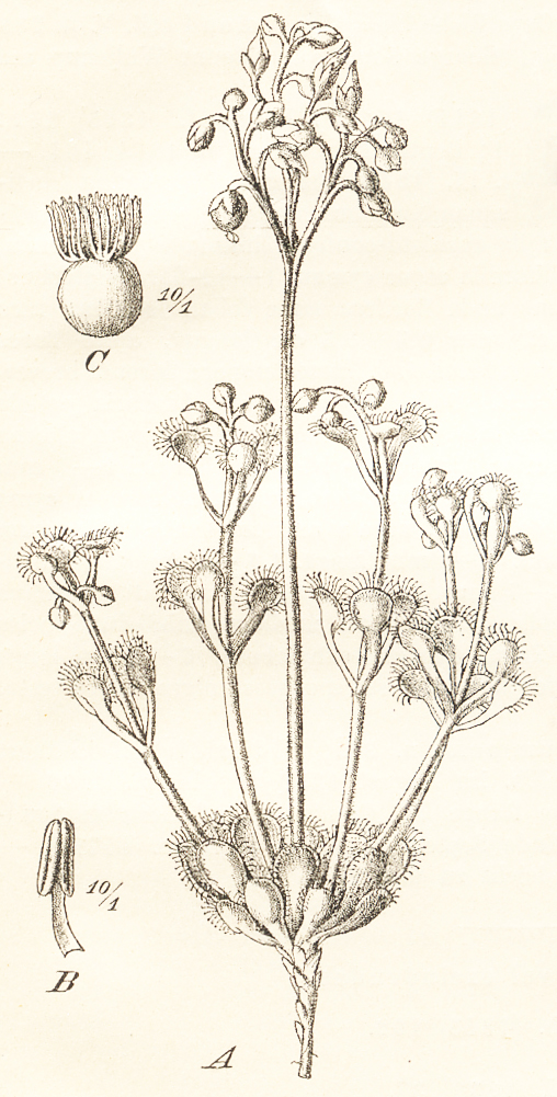 Drosera stolonifera illustration. A: Habitus, B: Stamen, C: Gynaeceum. Author: Ludwig Diels